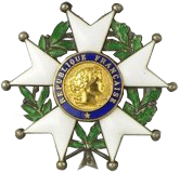 Badge of Légion d'Honneur